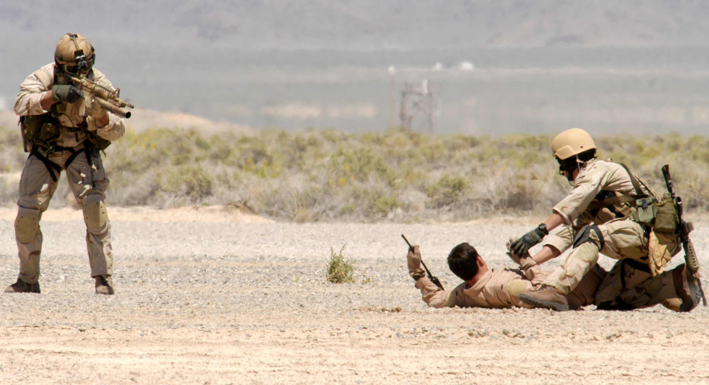 Pararescuemen from the 58th Rescue Squadron move in to rescue a downed pilot during a firepower demonstration on the bombing range here May 12. The firepower demonstration gave local civic leaders a bird's-eye view of some of the Air Force's capabilities in a wartime environment.